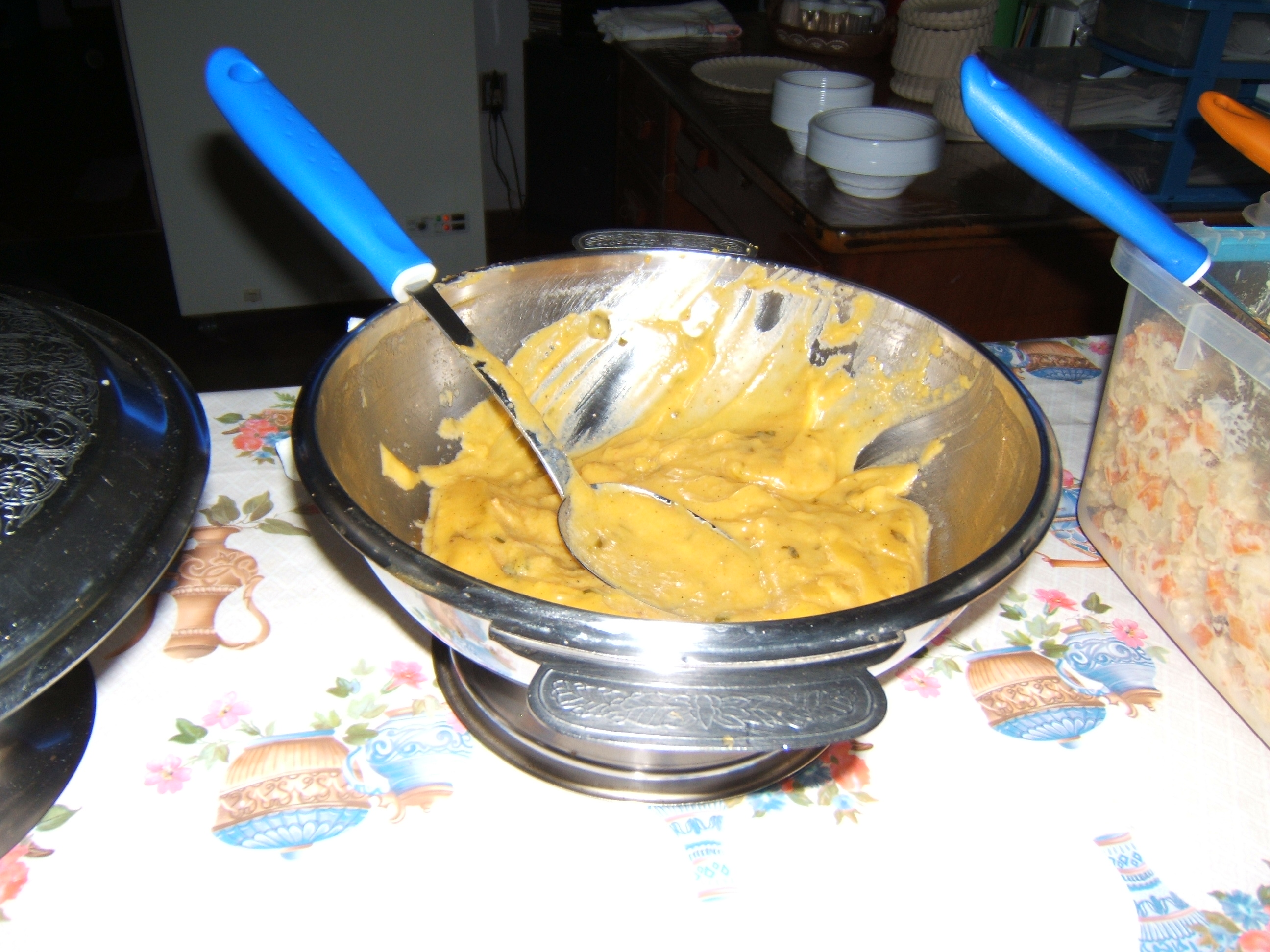 Typical dishe from Brazil's northern, vatapá de camarão (Shrimp vatapá)